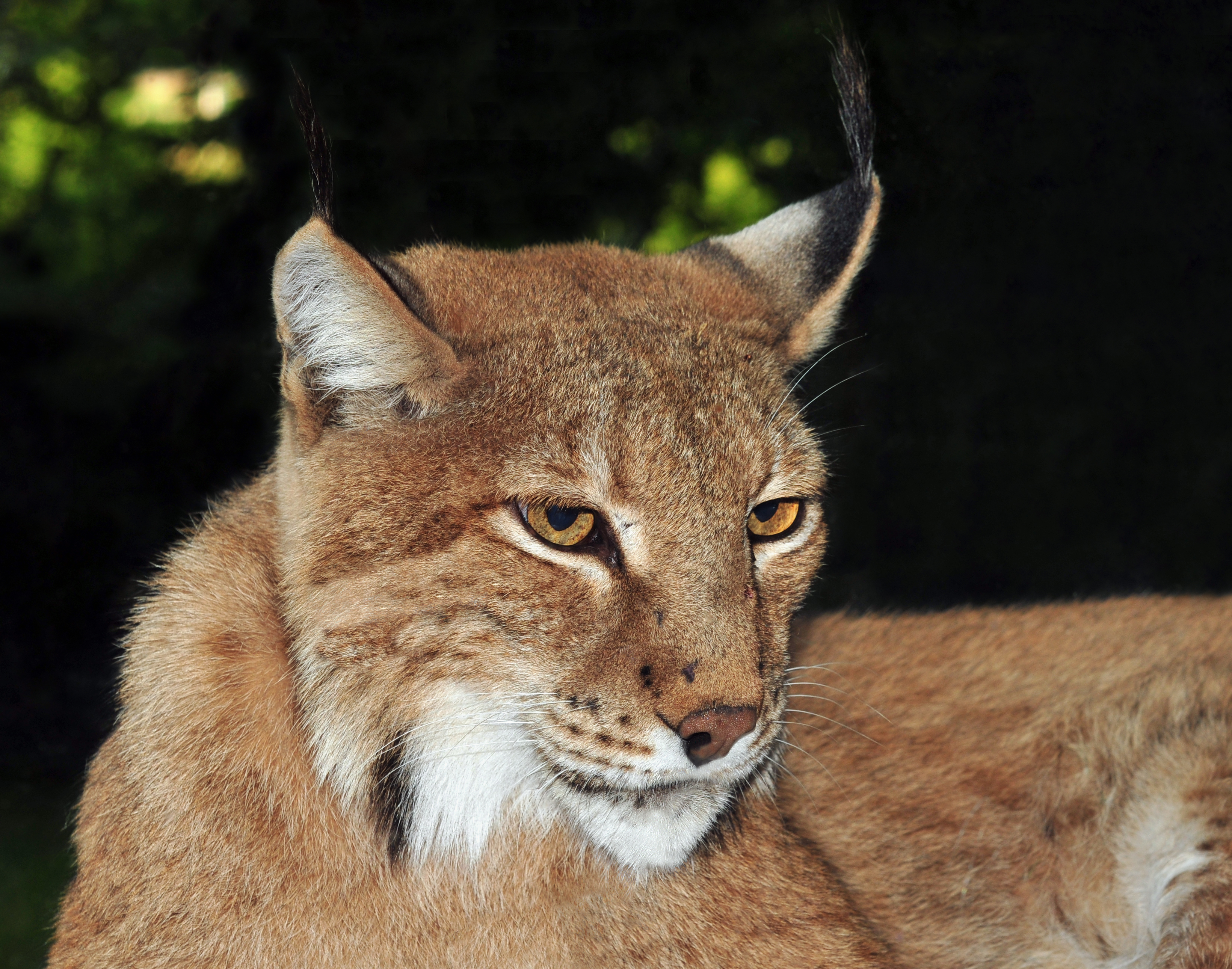 Eurasian Lynx